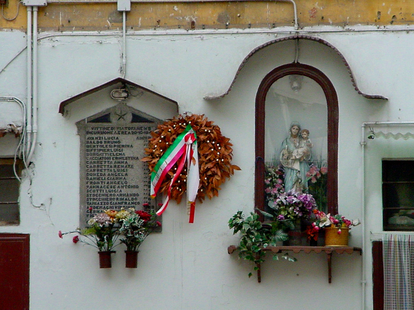 Plaque listing the children living ina courtyard in Milan killed in a school at Gorla during an Allied bombing.